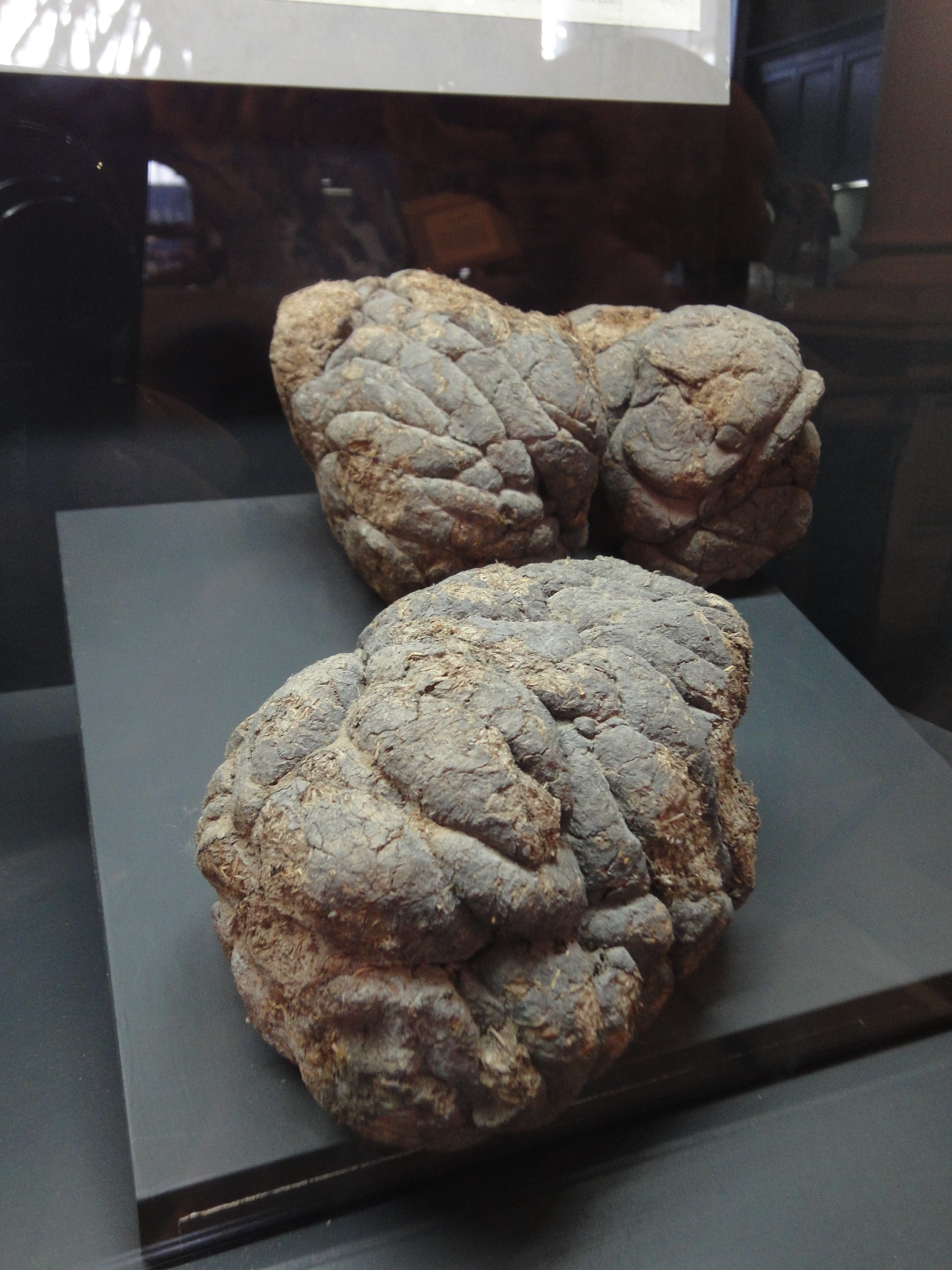 Mylodon listai also named Mylodon darwini, feces at Museo de La Plata